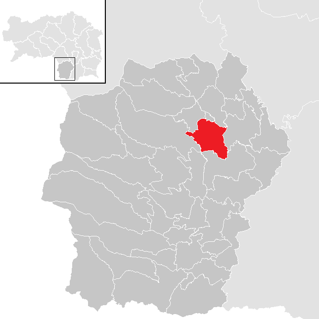 District Deutschlandsberg, Styria, Austria